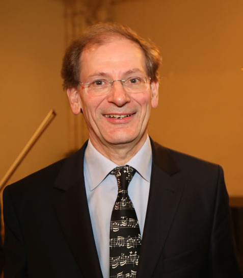 Clemens Hellsberg, Andreas Mailath-Pokorny-0590